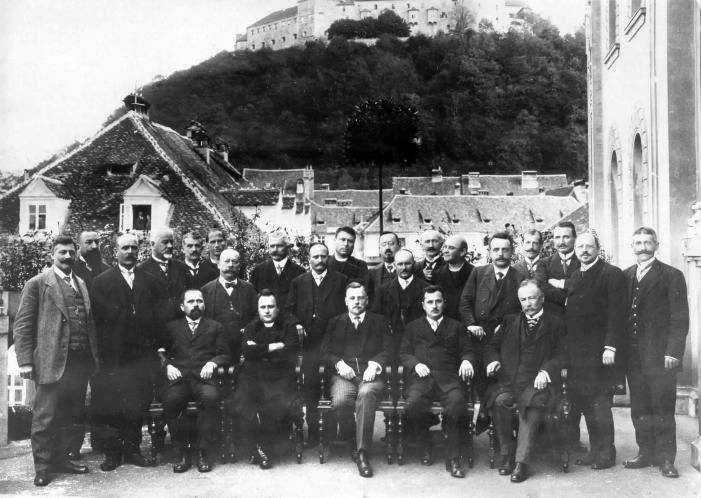 Deputies of the Provincial Diet of Carniola (1910-1914)